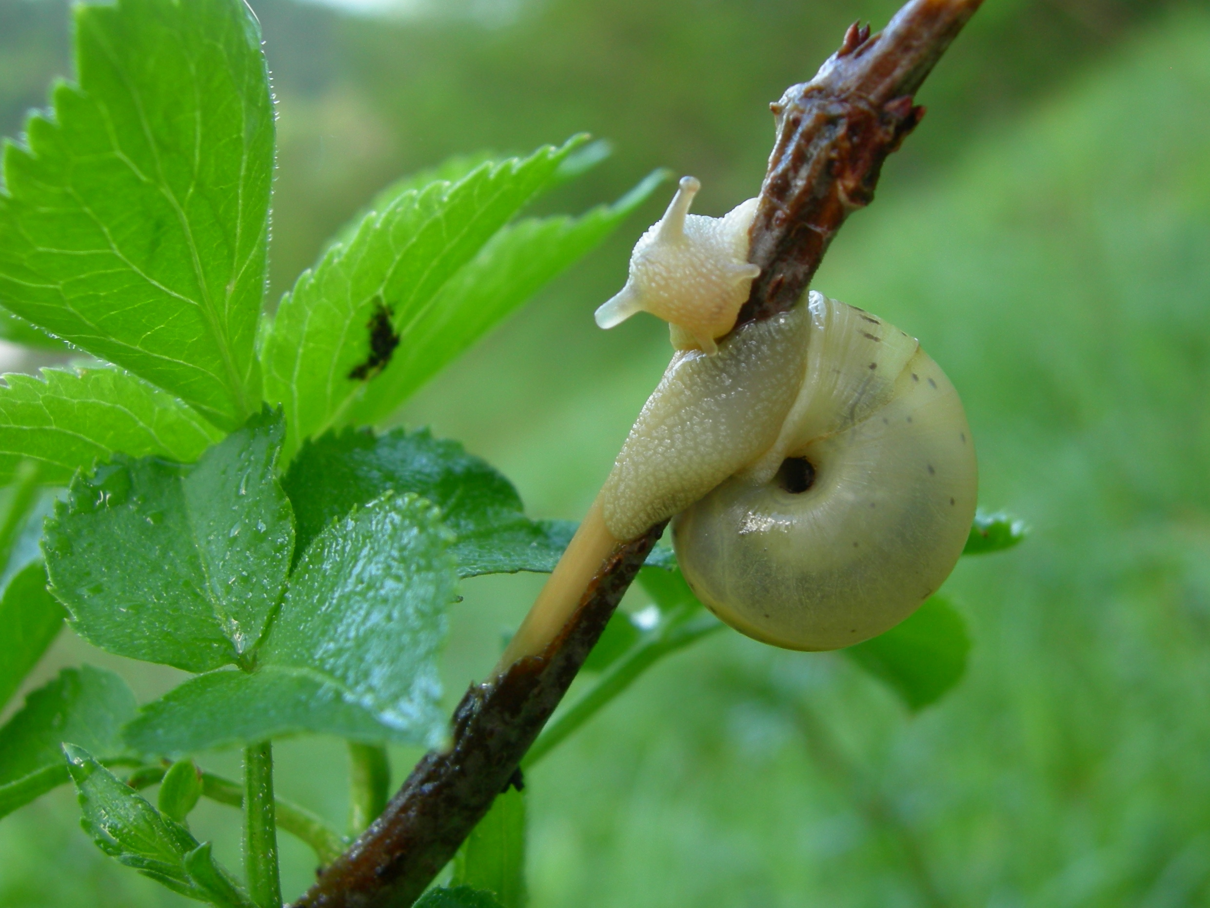 Young roman snail (Helix pomatia). Slovenia.